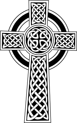 Celtic cross, created with Sodipodi vector software